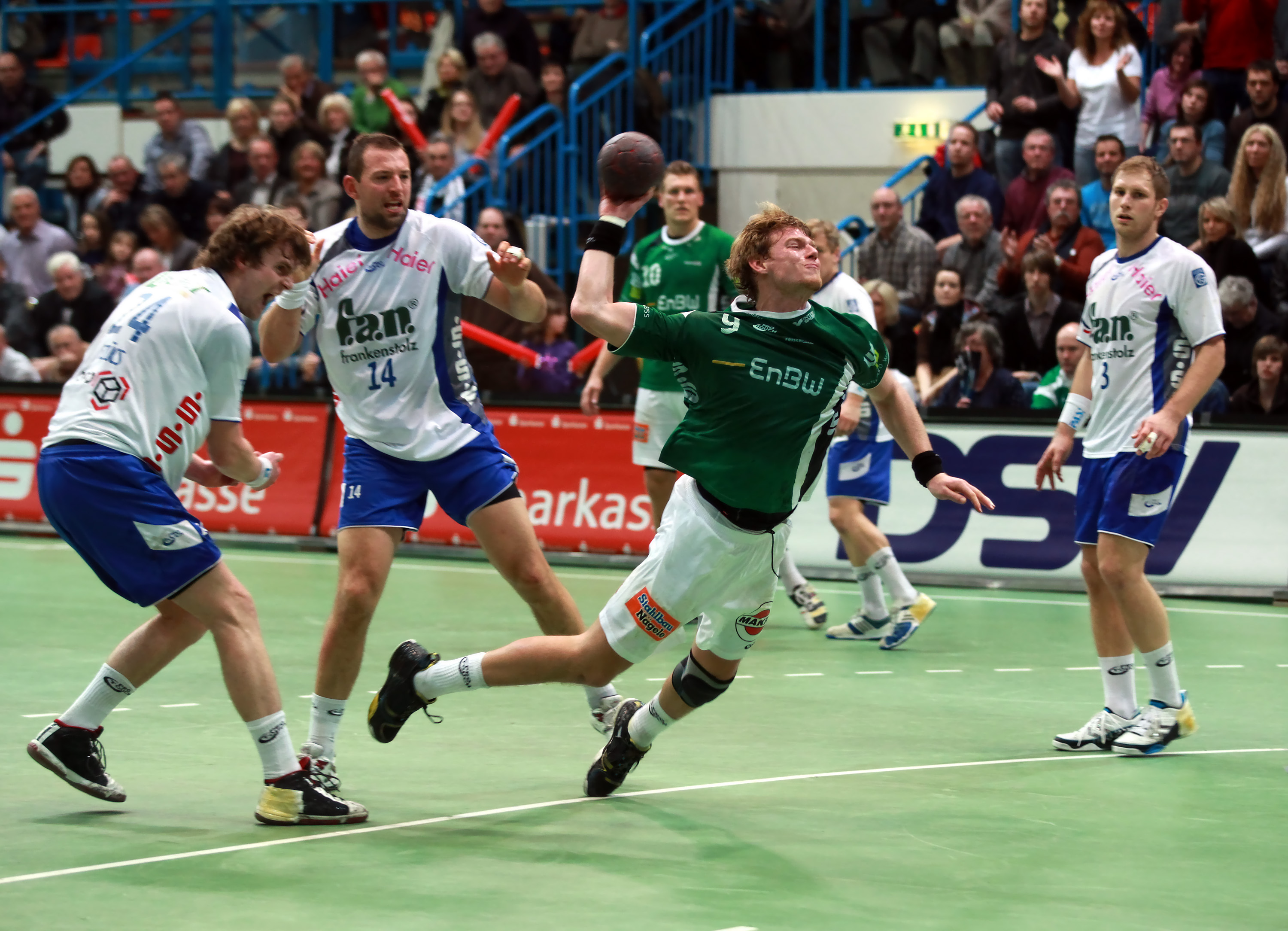 Manuel Späth, German handball player from Frisch Auf Göppingen, on December 22nd, 2010 in a Bundesliga match TV Großwallstadt – Frisch Auf Göppingen. The game took place in the f.a.n. frankenstolz arena of Aschaffenburg